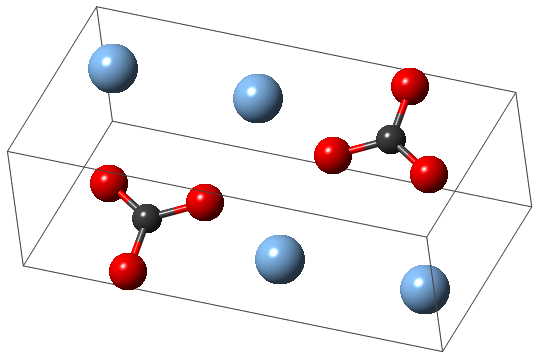 Silver(I) carbonate with the unit cell at 295 K, monoclinic, P21/m, 2 molecules in the cell. According to "Decomposition of Silver Carbonate; the Crystal Structure of Two High-Temperature Modifications of Ag2CO3" by ACS.